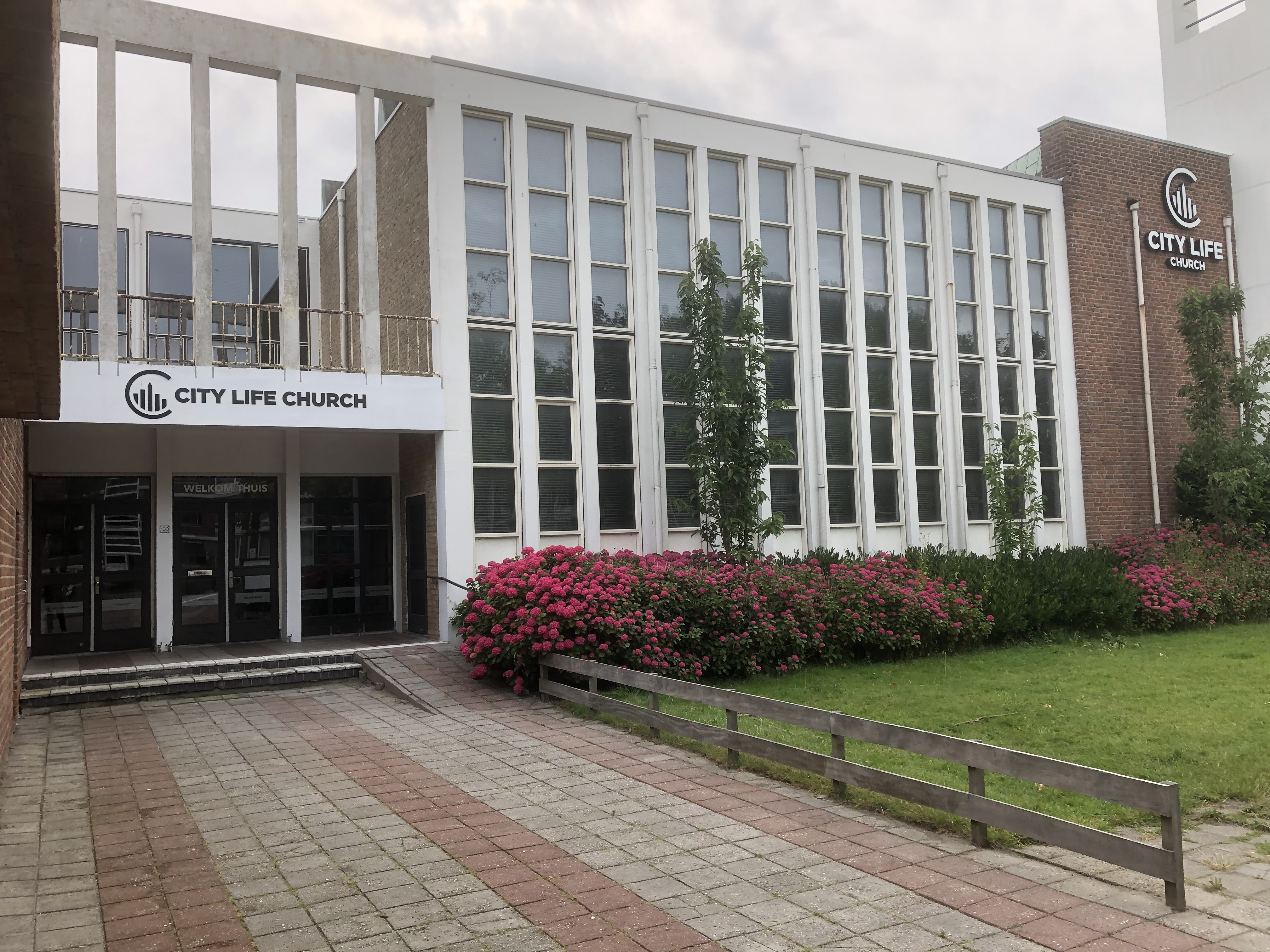 The building of City Life Church Leeuwarden. A contemporary evangelical church. The original name of the building was Salvatorkerk